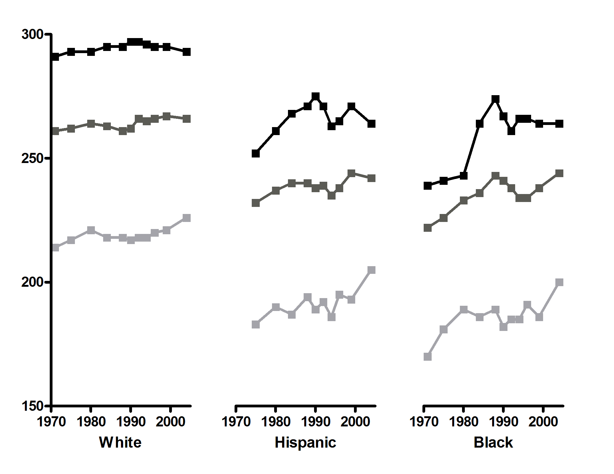 NAEP reading scores long-term trends age 9: age 13: age 17